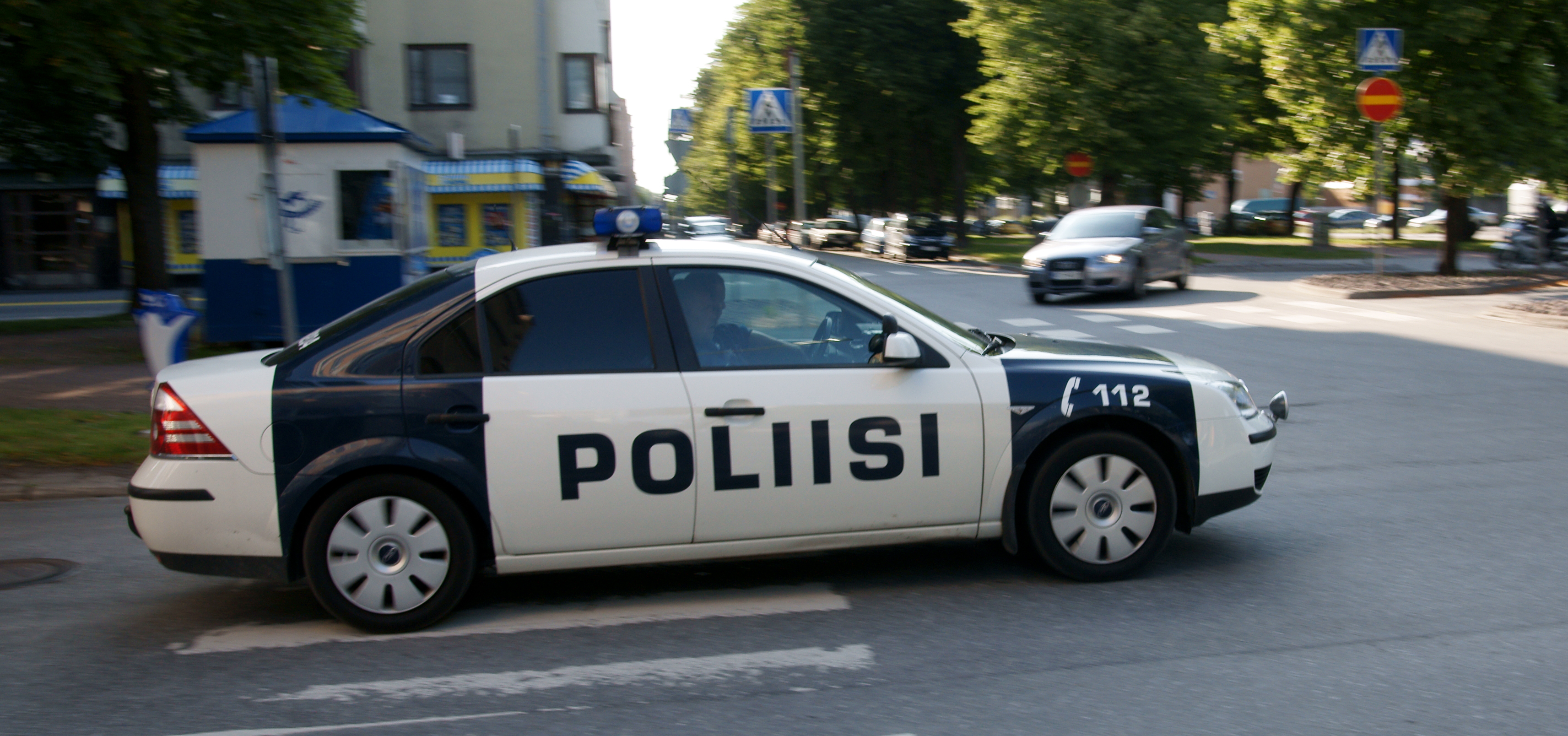 Police car in Pori.